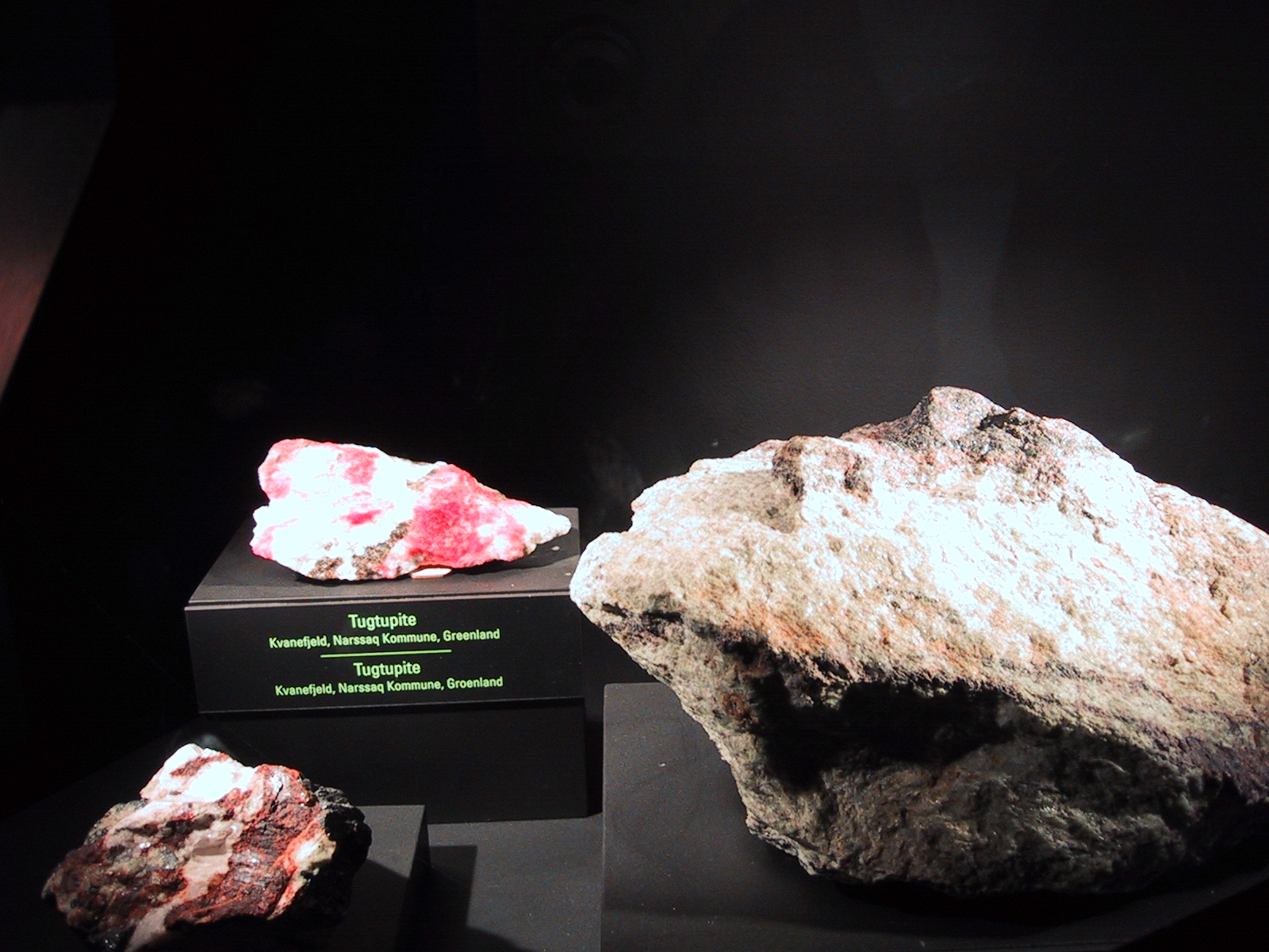 Mineral: Tugtupite This picture was taken at the Royal Ontario Museum in Toronto, Ontario, Canada. Released into the Public Domain by the creator User:Share Bear